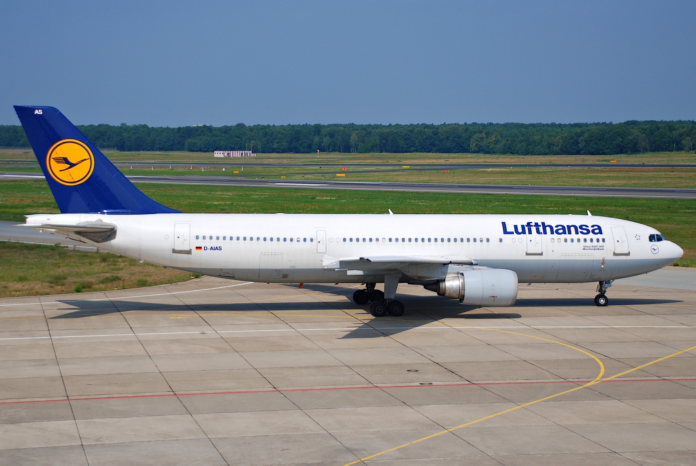 First flight: December 8, 1989... 06/03/1990 Lufthansa D-AIAS named Mönchengladbach - stored 10/2008 01/08/2009 Mahan Air EX-35010 15/09/2009 Mahan Air EP-MNQ